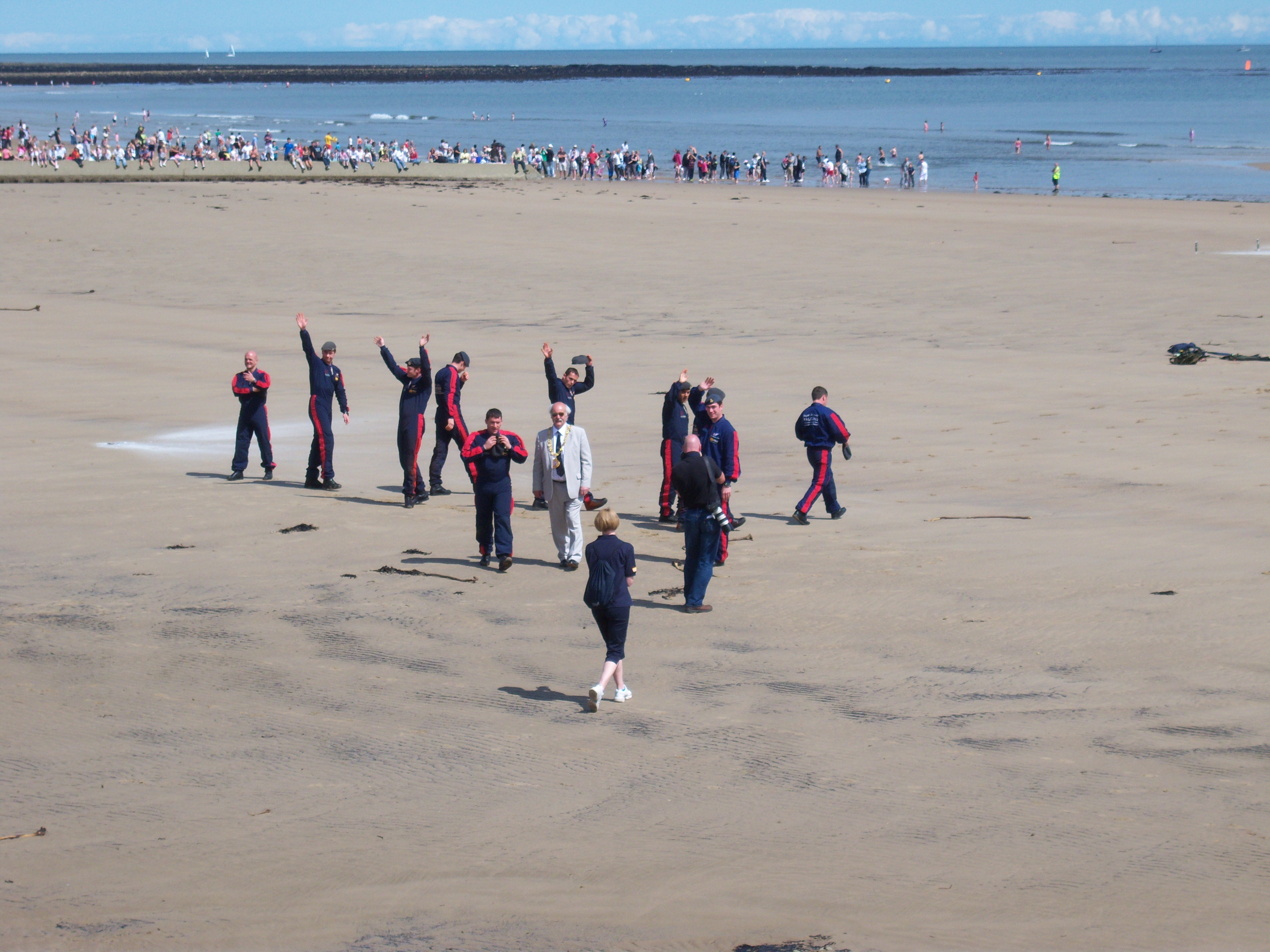 The RAF Falcons parachute display team having just landed at the 2009 Sunderland International Airshow